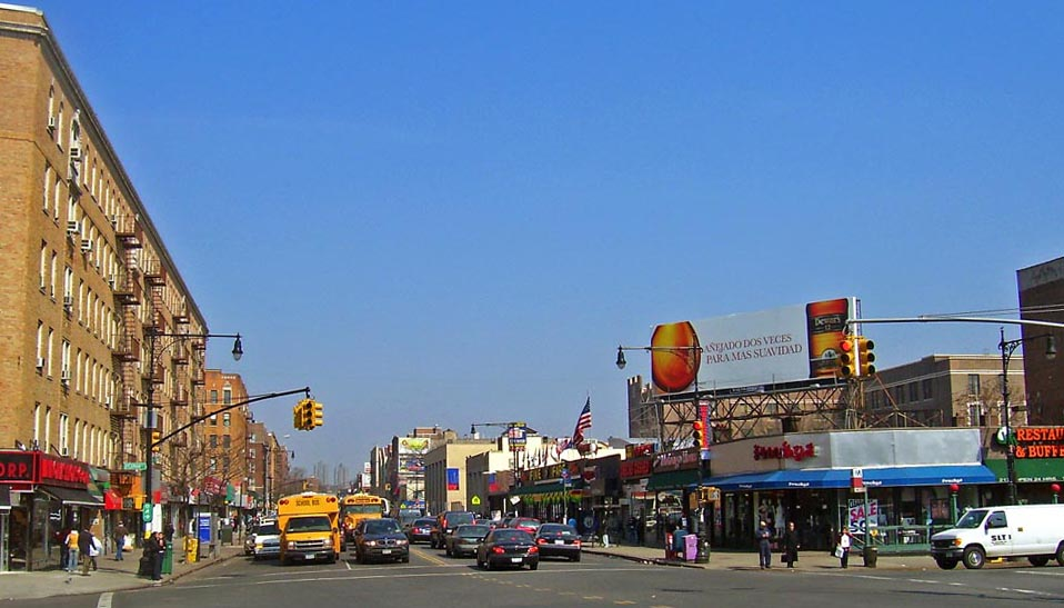 Photographed by Daniel Case 2007-03-22 at the intersection of Broadway and Dyckman Street.